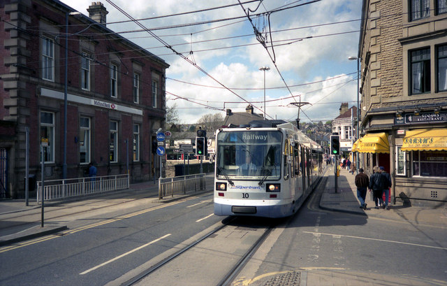 Sheffield Supertram car number 10 in Middlewood Road, Hillsborough, Sheffield, South Yorkshire, en route to Halfway which is southeast of Sheffield.